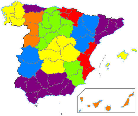 Map of the Spanish divisions in 1833.